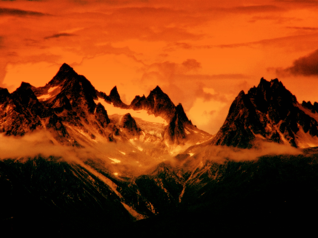 Mordor (sort of) Location: Mordor.